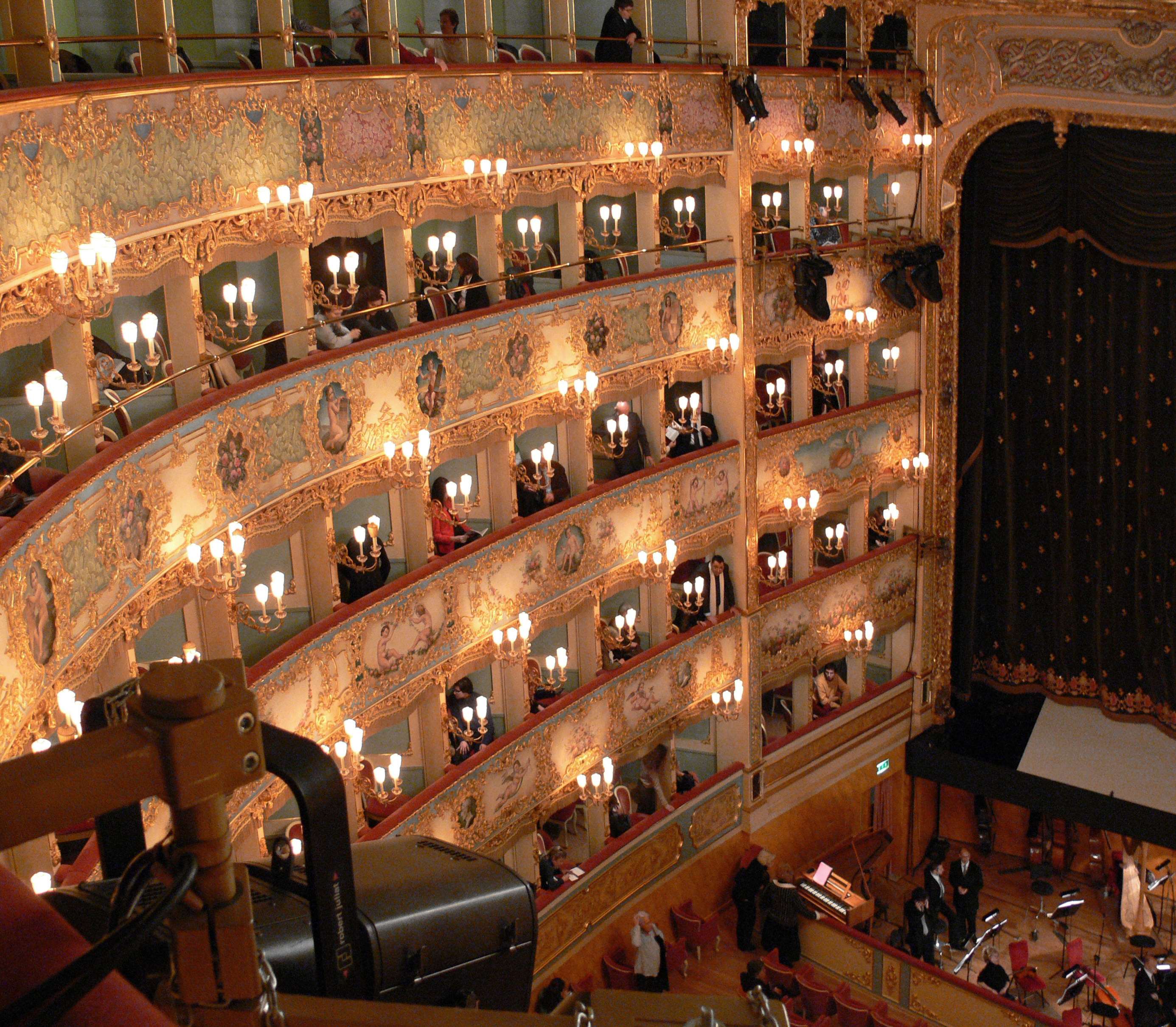 The left side of the auditorium, Teatro La Fenice, Venezia, Italy